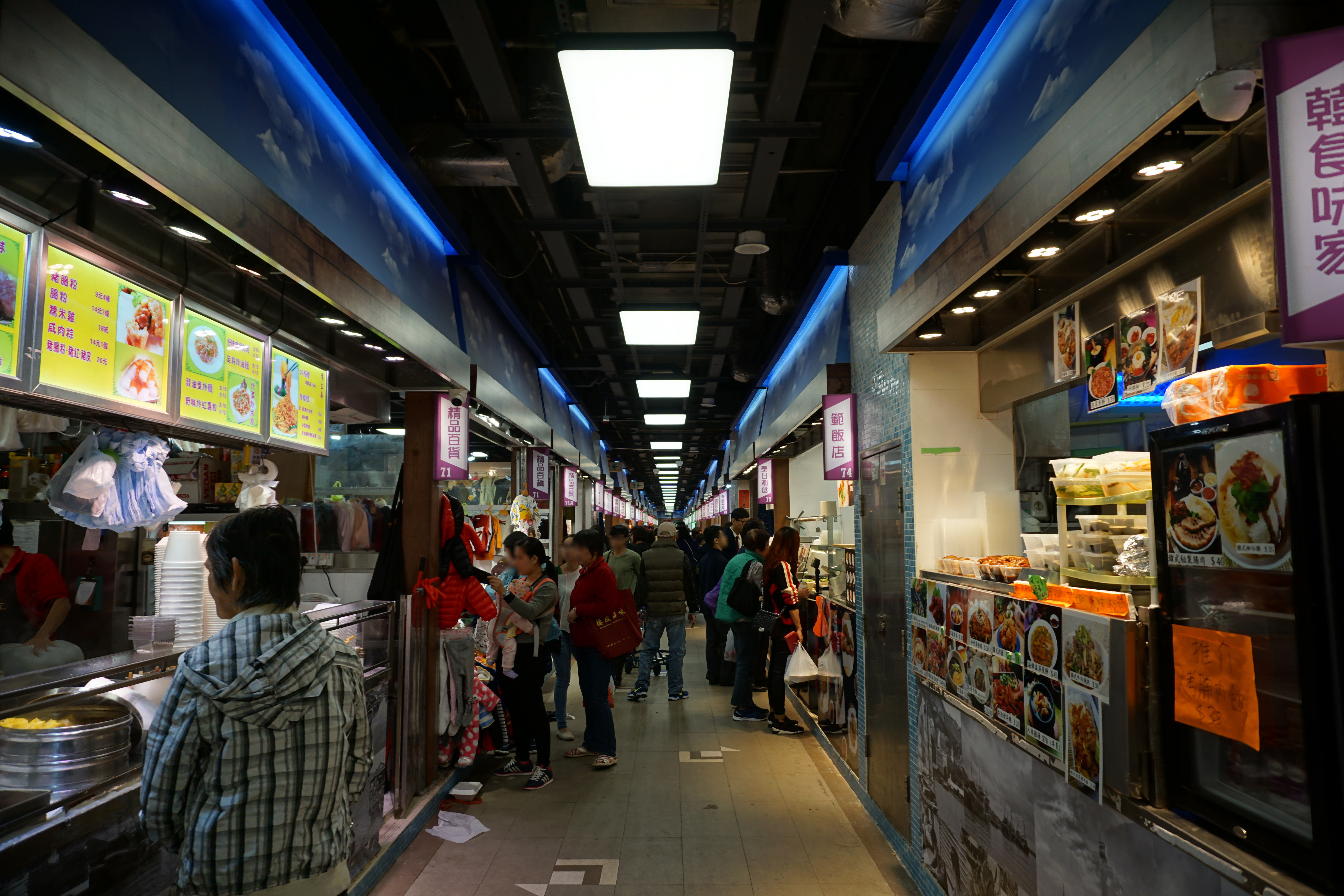 Lei Yue Mun Market in Yau Tong, Hong Kong.